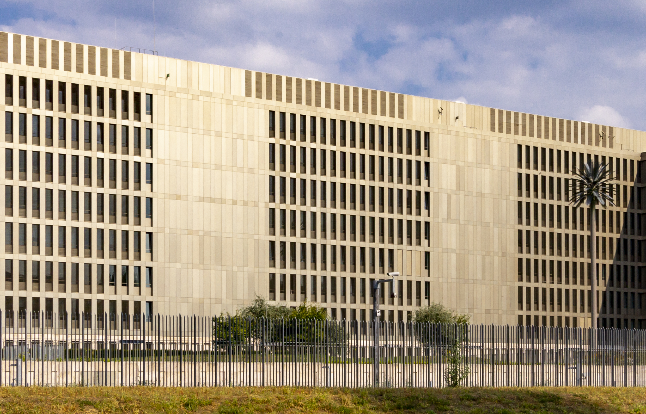 Headquarters of the Federal Intelligence Service of the Federal Intelligence Service in Berlin.